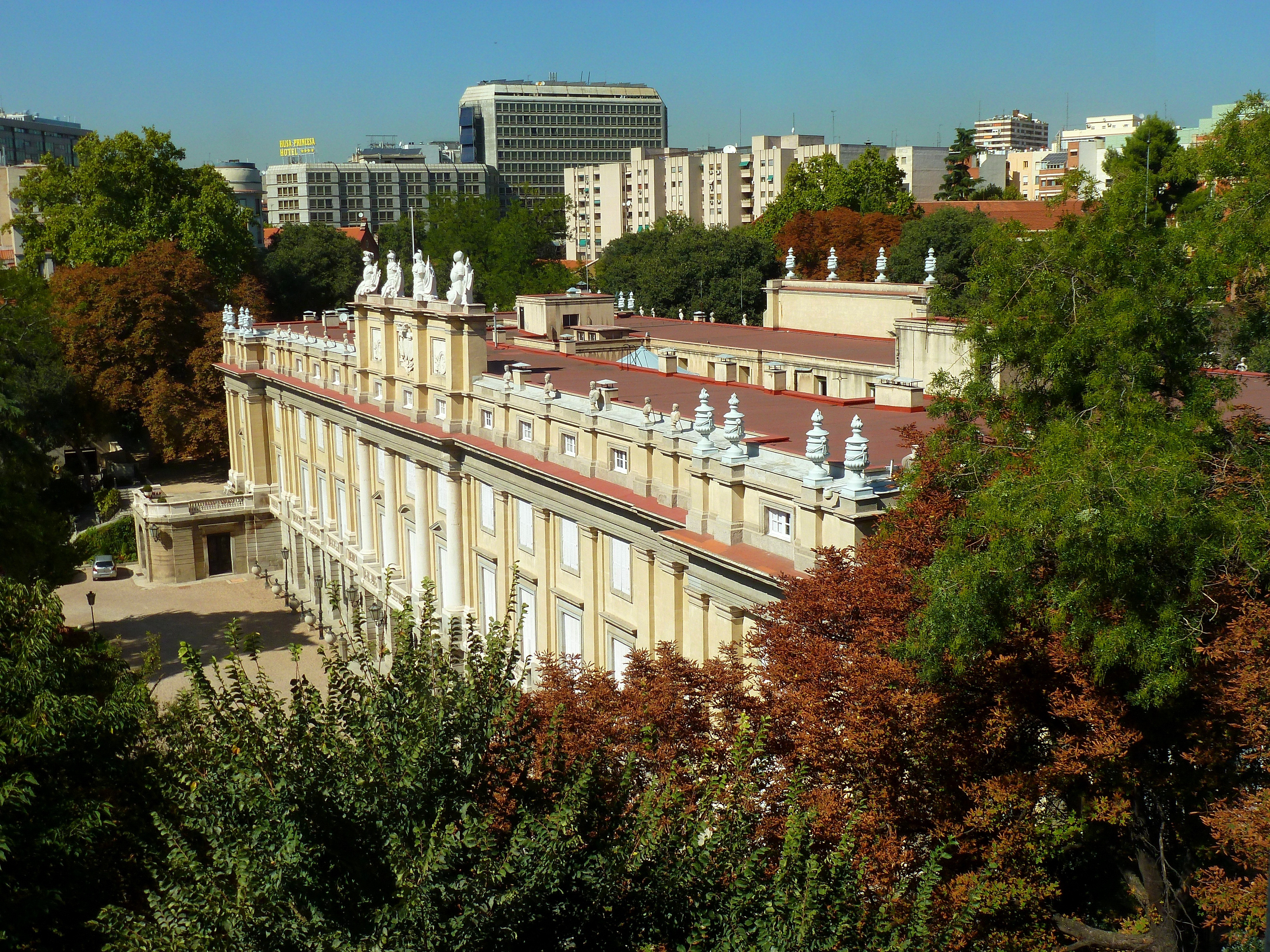 Liria Palace, work of Ventura Rodríguez, residence in Madrid of the Dukes of Alba.